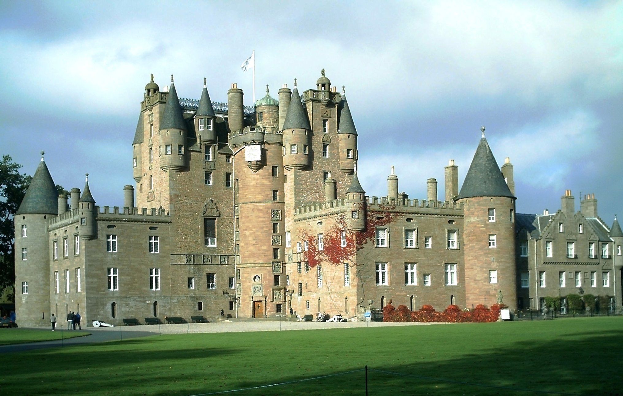 Glamis Castle, Angus, Scotland